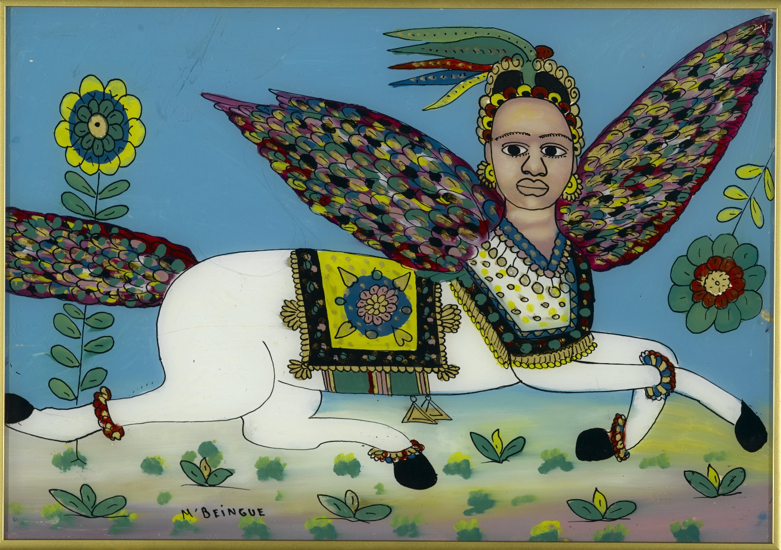 Figure of Al-Buraq (winged half human, half horse) painted on glass with gold metal frame. Condition good.